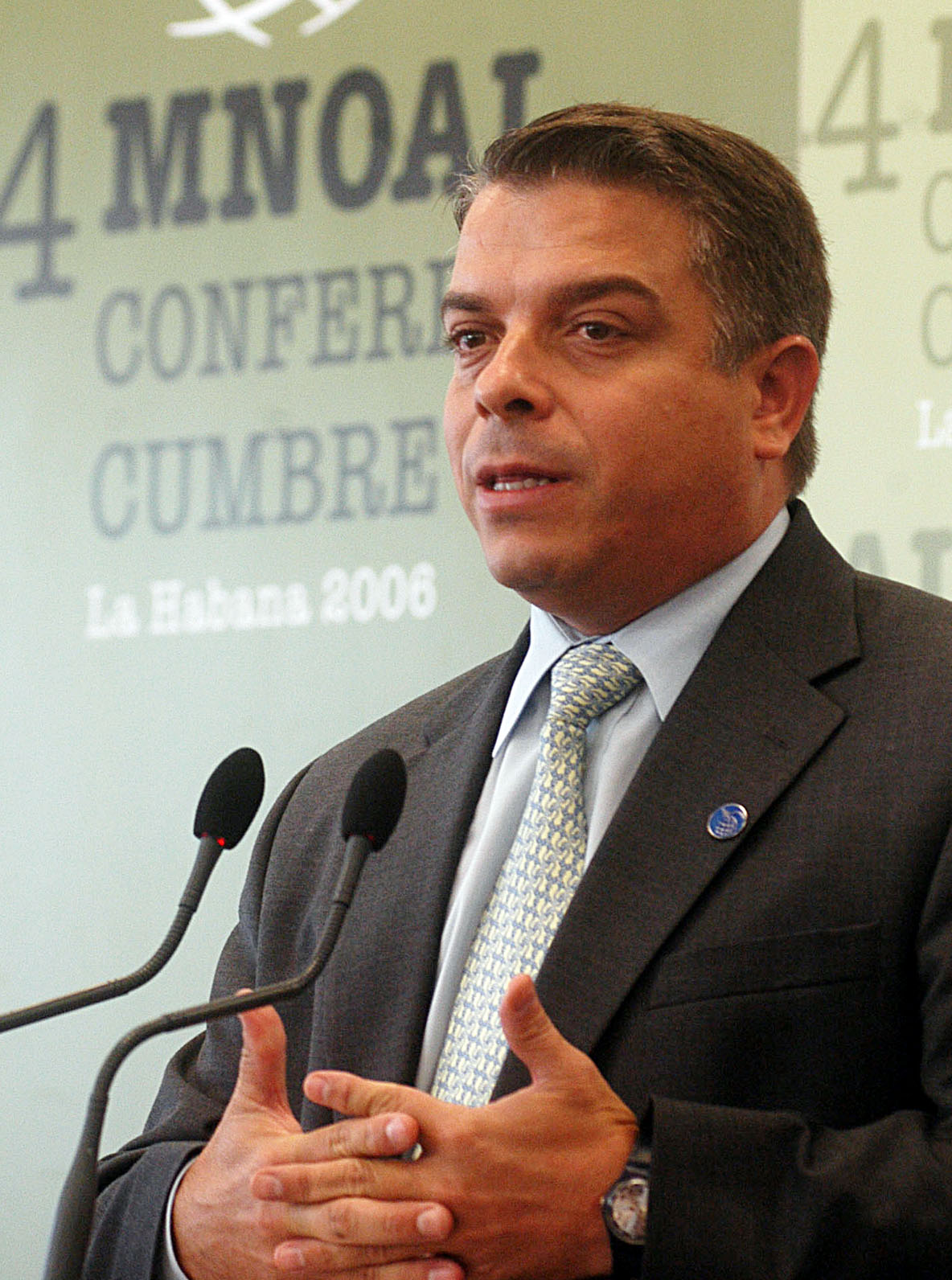 Felipe Pérez Roque (* 1965), foreign minister of the Republic of Cuba, during a press conference at the 14th summit of the Non-Aligned Movement in Havanna, Cuba